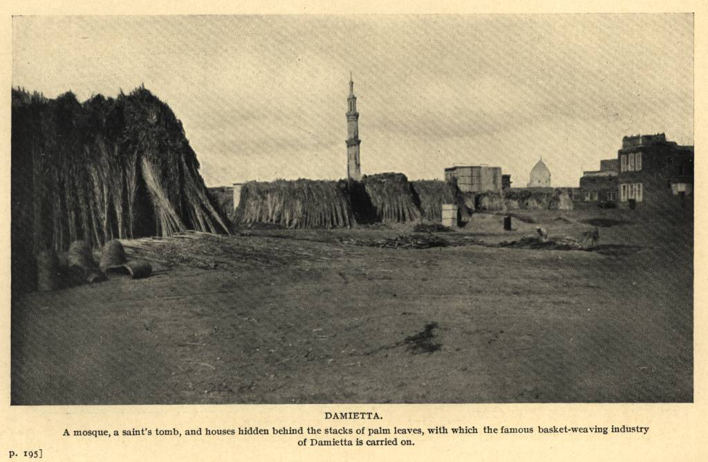 Stacked palm leaves with a mosque and other buildings in the background